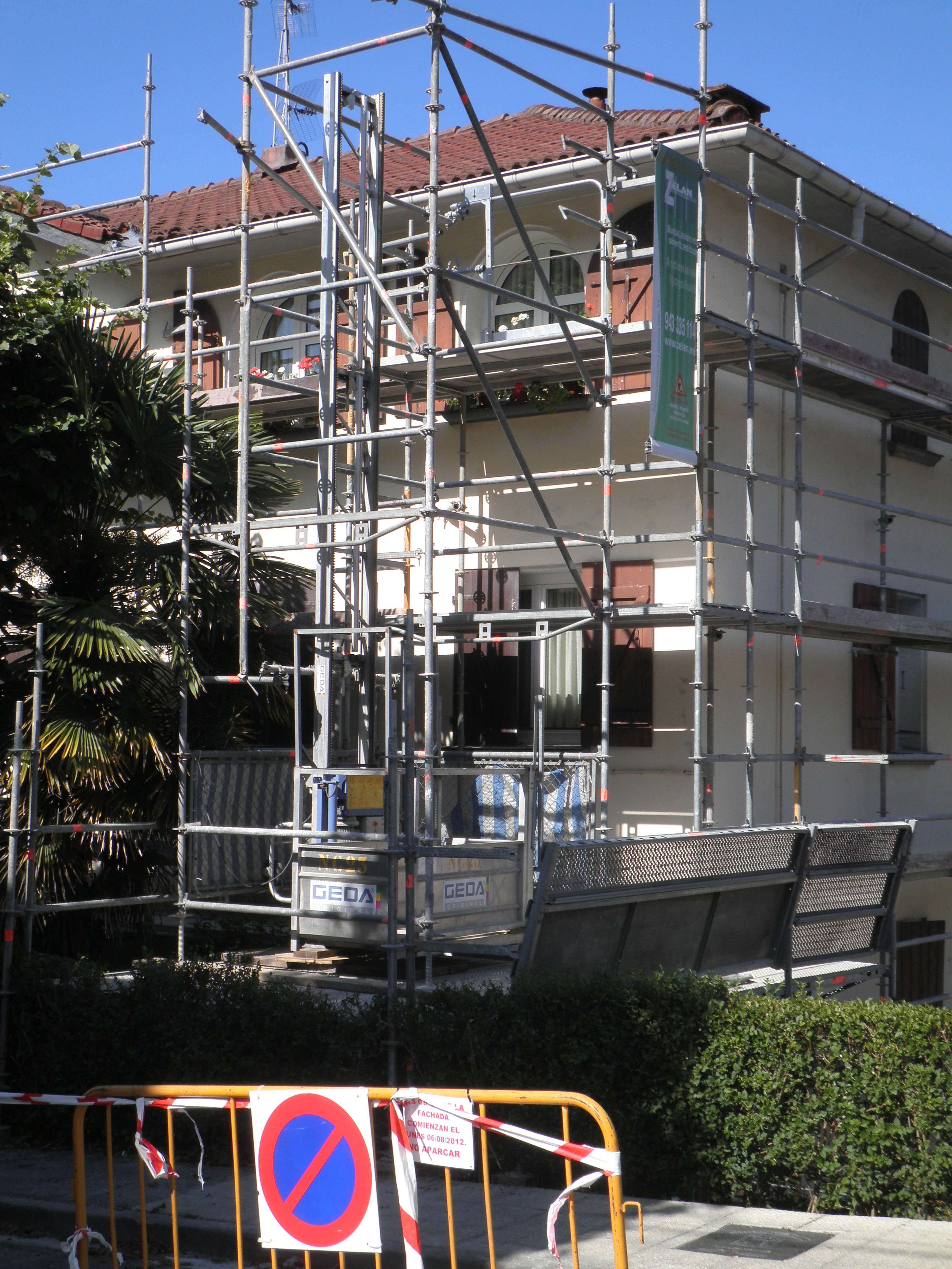 Scaffolding in San Roke strett, Donostia.